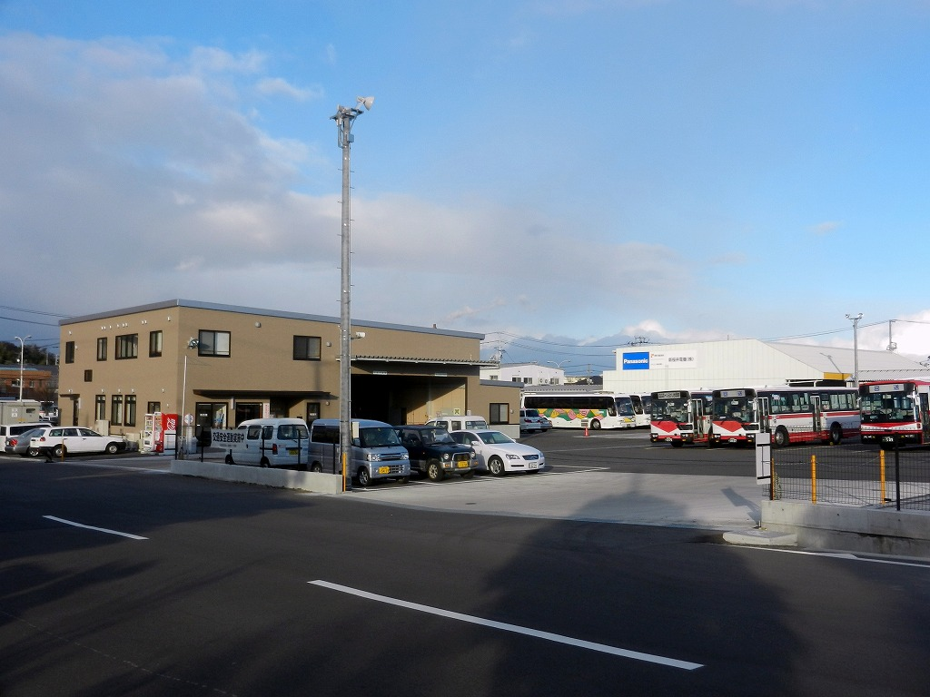 Miyakoh Bus Shiogama Depot